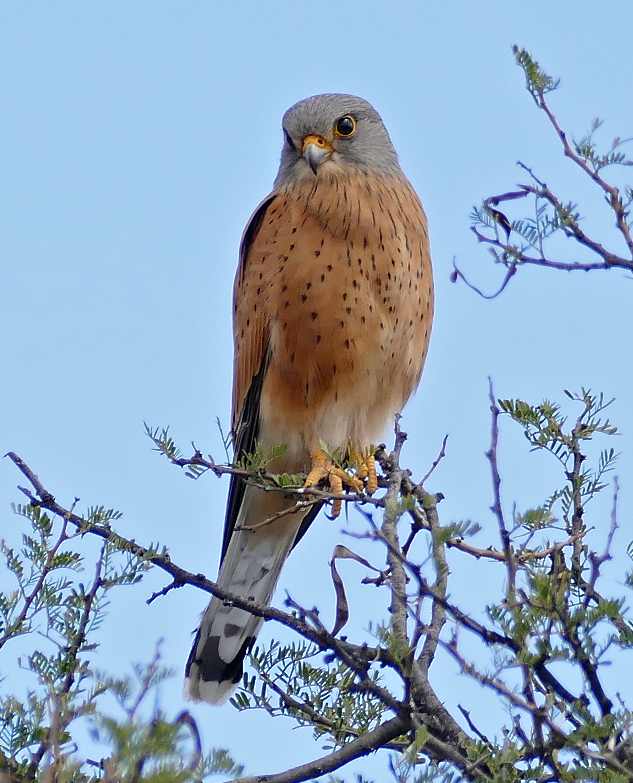 Link Road, Mountain Zebra NP, Eastern Cape, SOUTH AFRICA